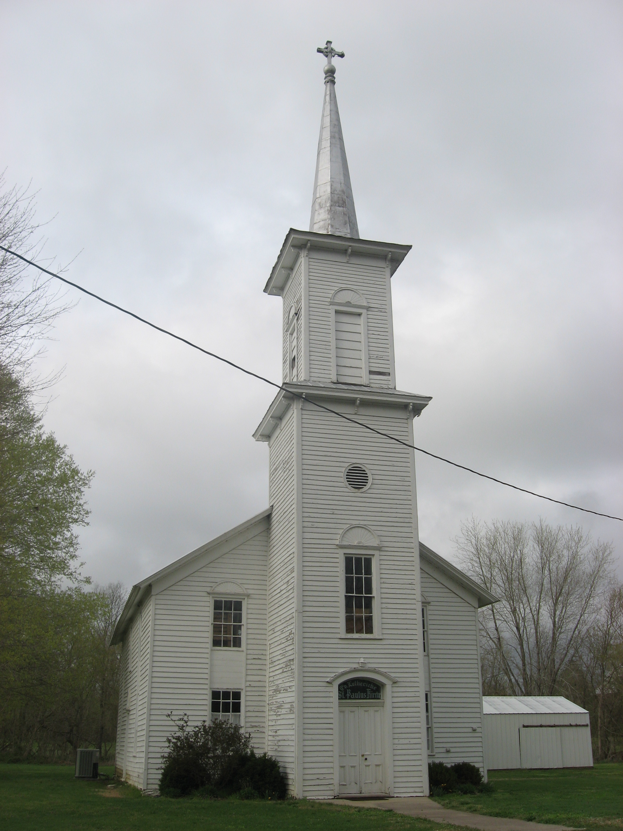 Front and western side of St. Paulus Evangelisch Lutherischen Gemeinde, located on Kornthal Church Road south of Jonesboro in Jonesboro District 2 Precinct, Union County, Illinois, United States. Built in 1860, it is listed on the National Register of Historic Places.